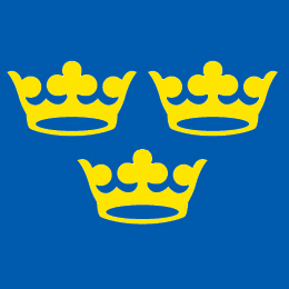 Image created by User:Johan Elisson. See also Image:Tre kronor 1.jpg and Image:Tre kronor 2.jpg.